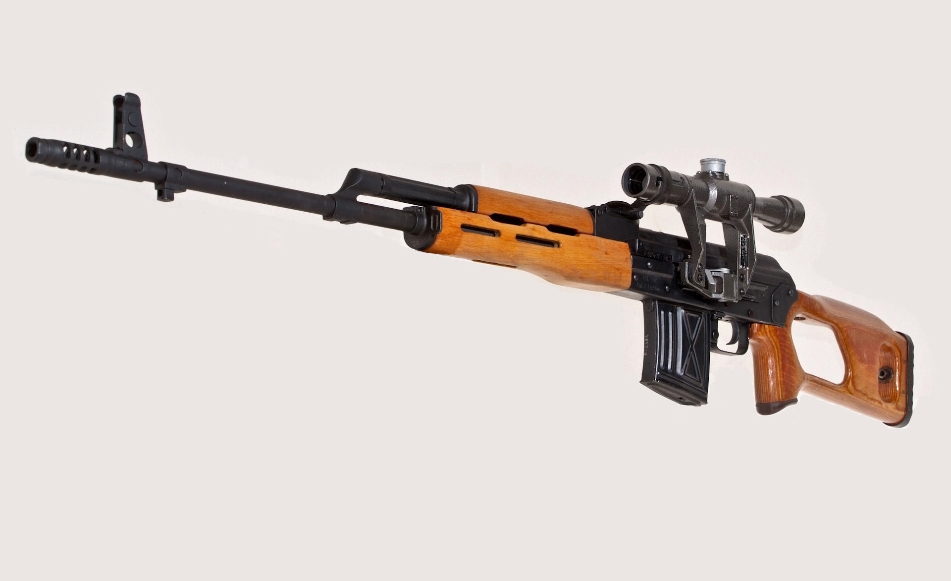 A PSL rifle.